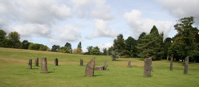 Gorsedd Stones for the National Eisteddford held at Aberdare Park in Wales